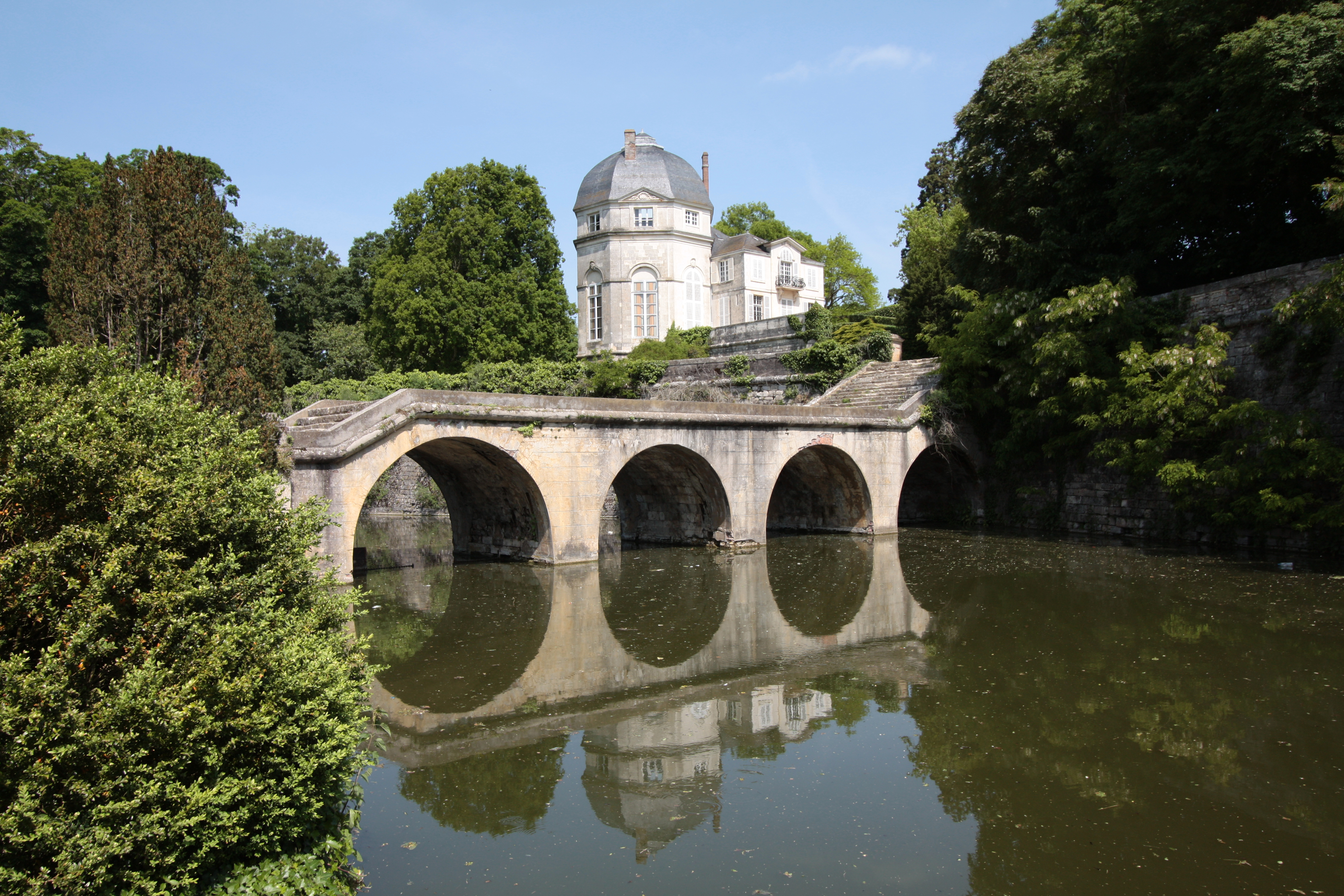 Remaining building of Castle Chateauneuf with perron and bridge leading down to the park, located in the town of Chateauneuf-sur-Loire, Département Loiret/France